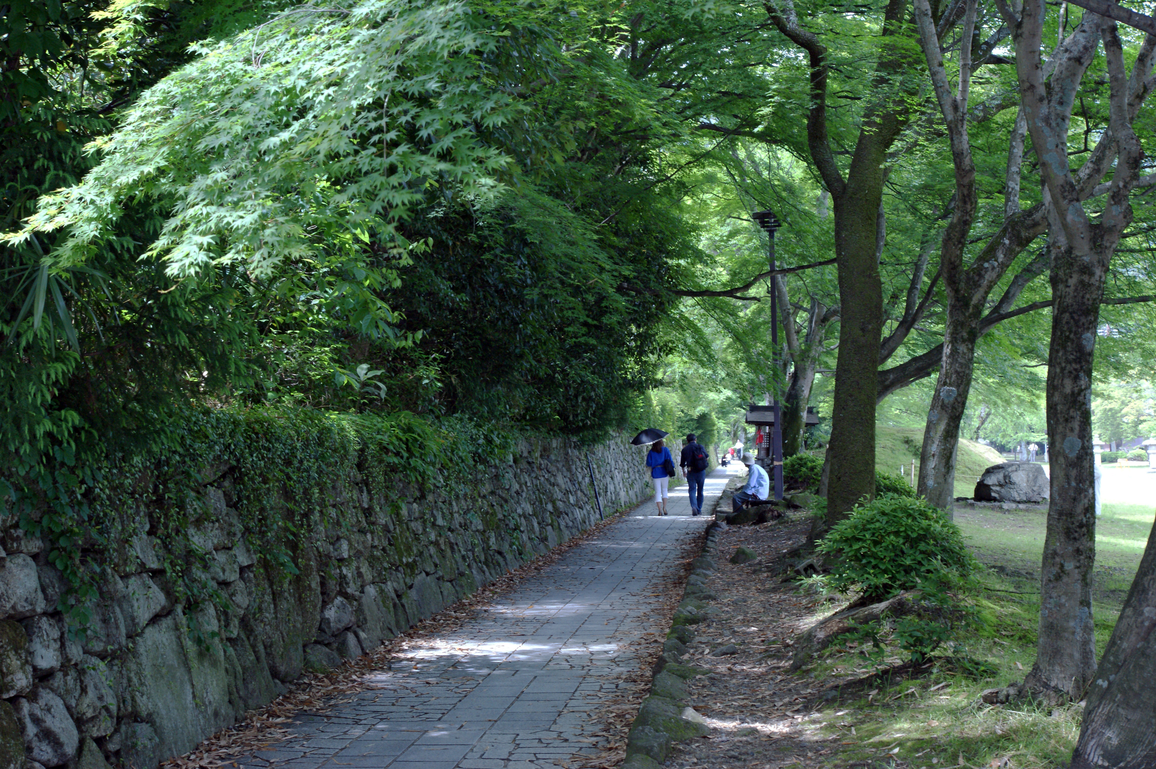 Sakamoto in Otsu, Shiga prefecture, Japan